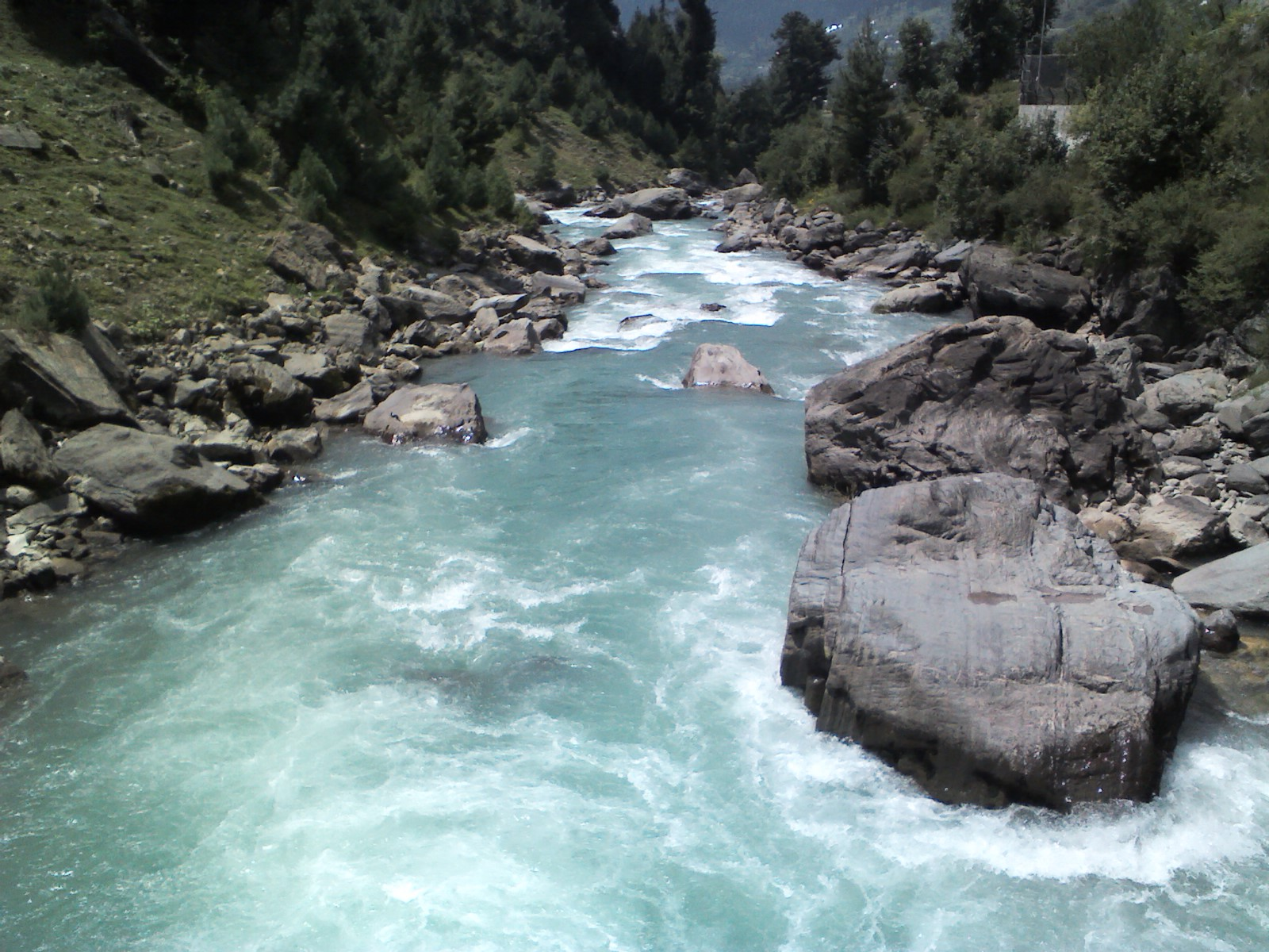 River Nallah Sindh, in Ganderbal of Kashmir Valley. Seen from a foothpath bridge at Gund